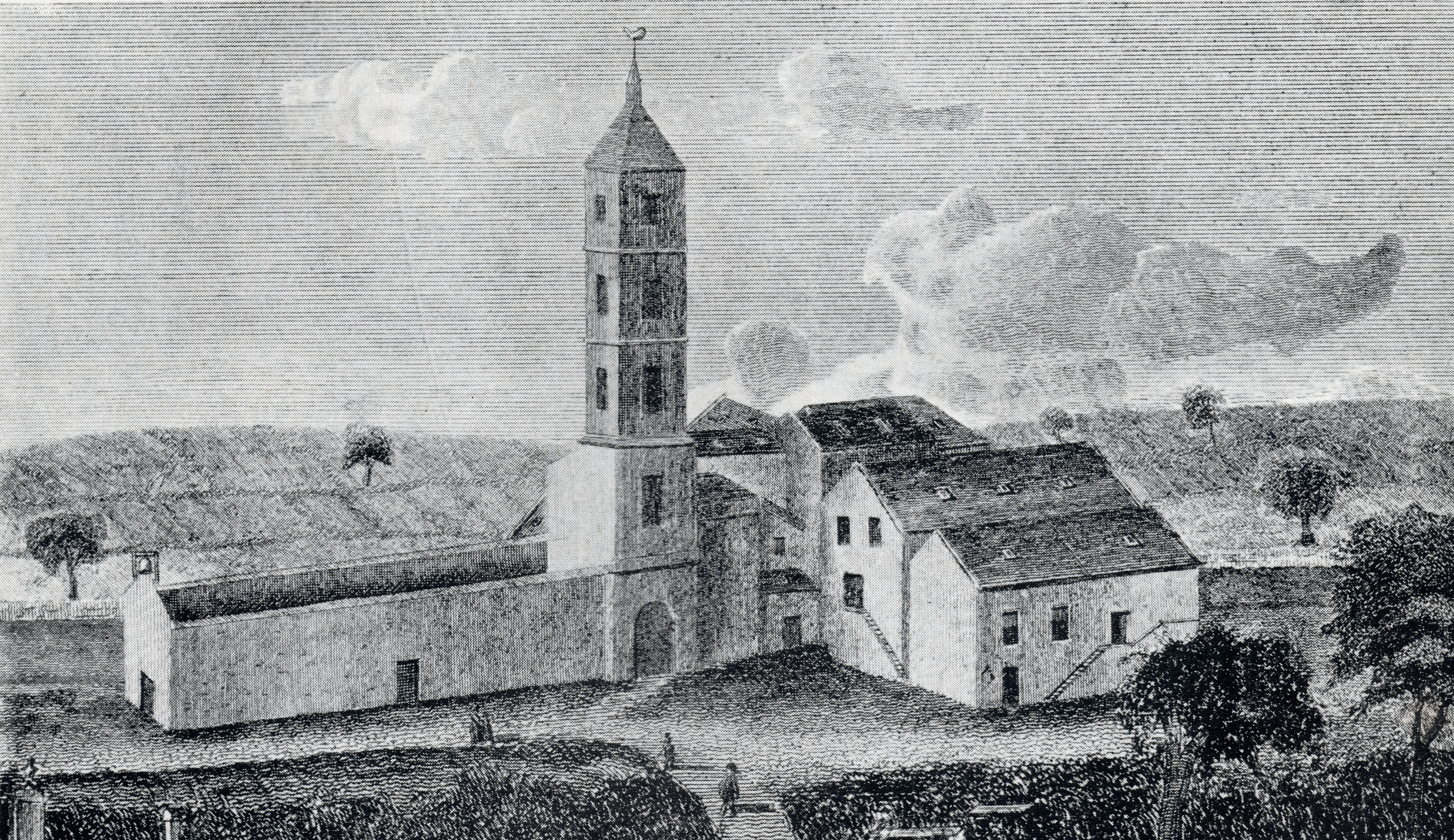 St Cuthbert's Church, Edinburgh. This building was condemned in 1772 and subsequently demolished. On the left is the Little Kirk, a 16th century extension unroofed in 1745.